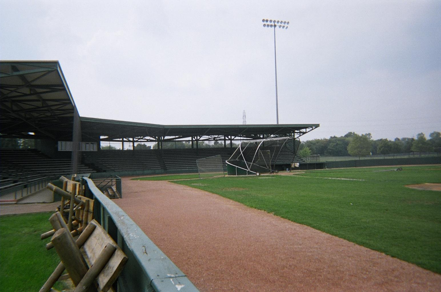 Oestrike Stadium is located beside Rynearson Stadium.